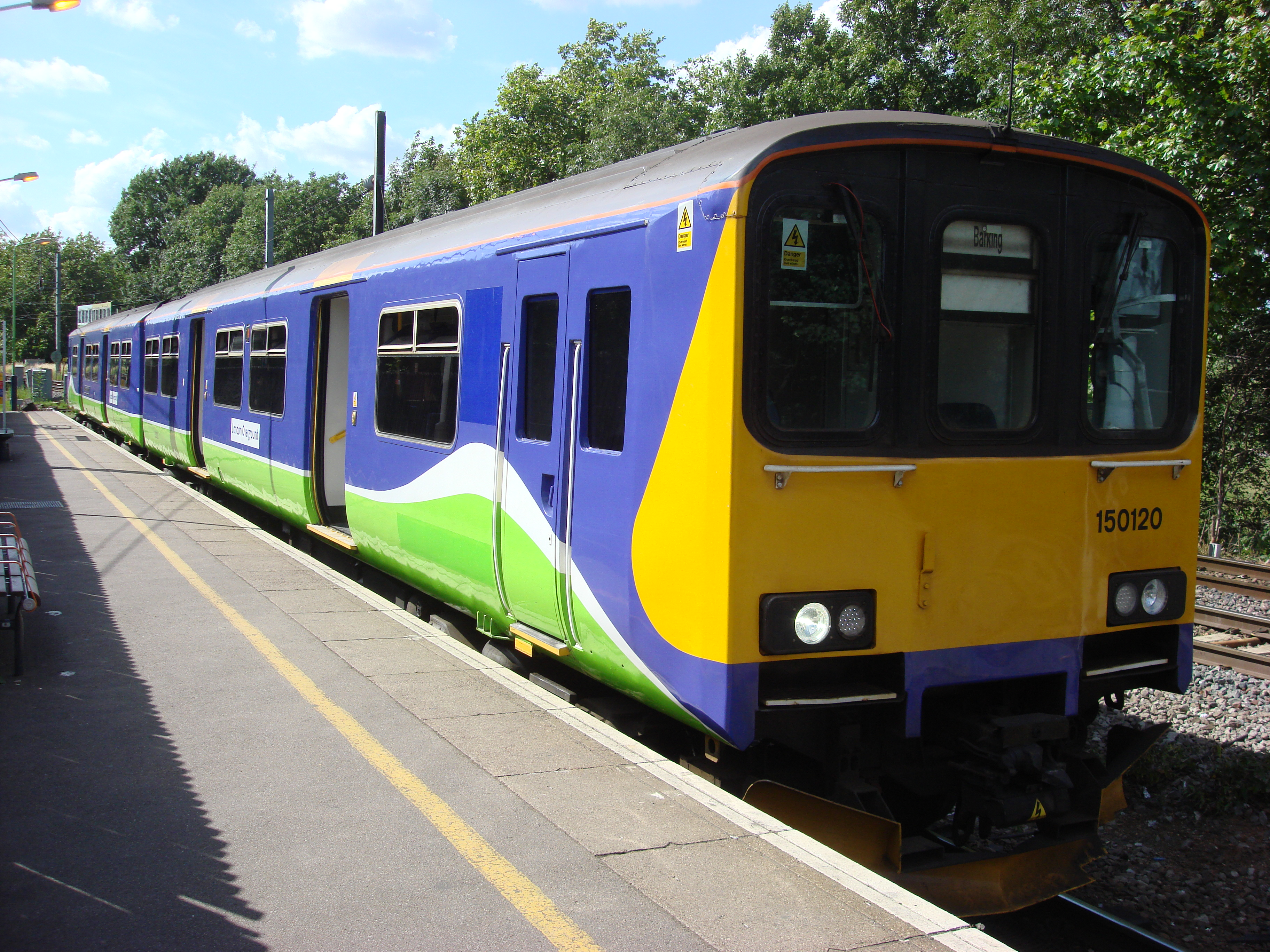 150120 stopped at Gospel Oak railway station